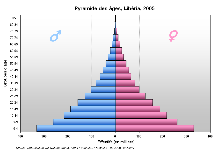 Liberia Population pyramid, 2005